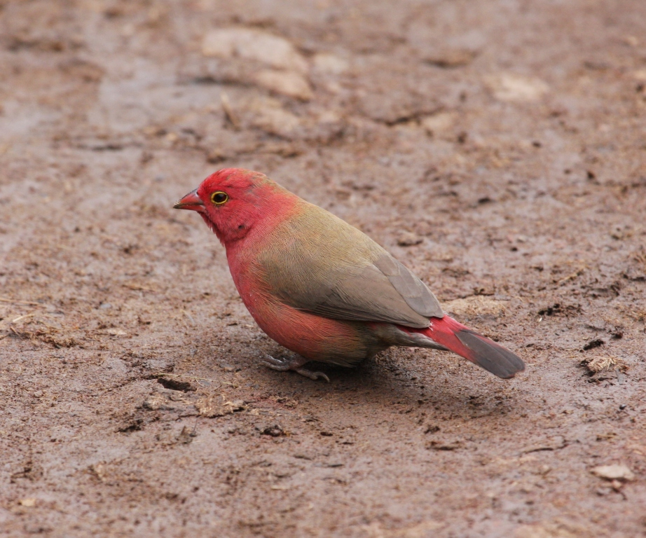 A male Red-billed Firefinch (also known as the Senegal Firefinch in Bahir Dar, Ethiopia